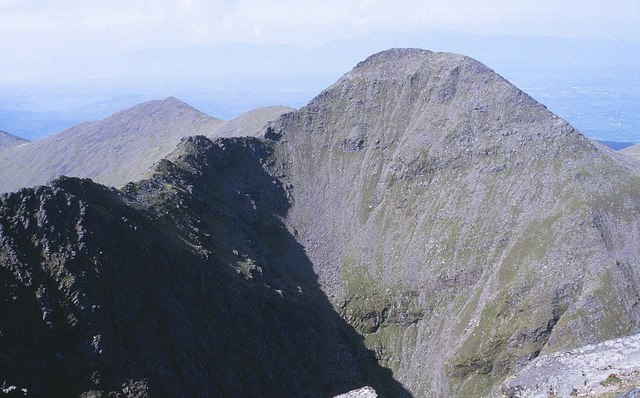 Macgillycuddy's Reeks: Binn Chaorach (Beenkeragh) At 1,010 metres, Beenkeragh is the second highest peak in Ireland, seen here from 1434274 about a kilometre away. Just visible behind the peak on the far right is Dingle Bay.